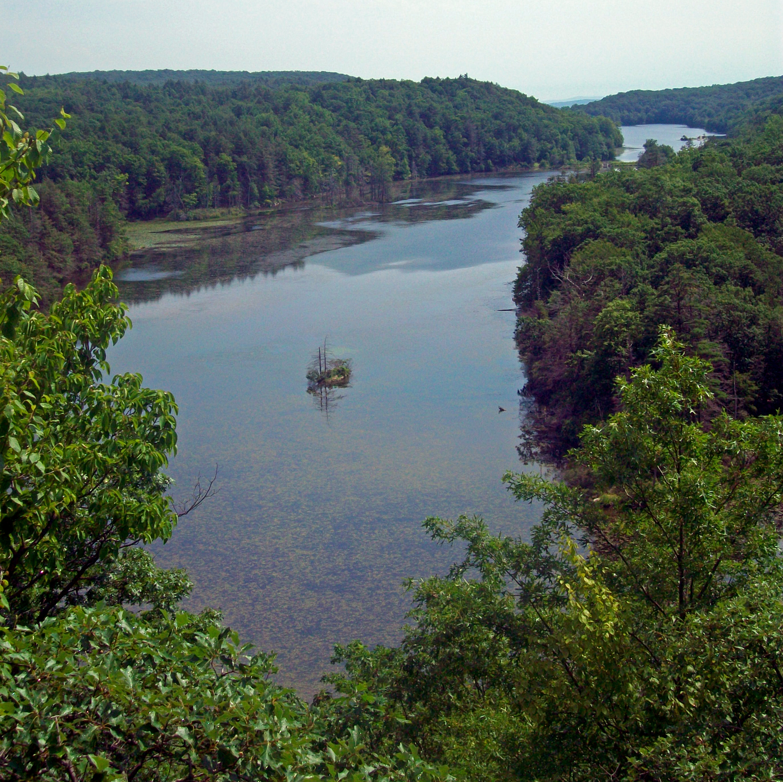 Canopus Lake seen from the viewpoint on the Appalachian Trail at its north end, in New York's Clarence Fahnestock State Park.